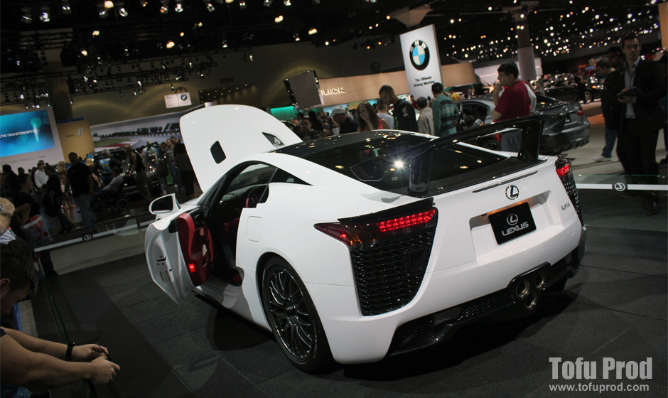 LA Auto Show 2012